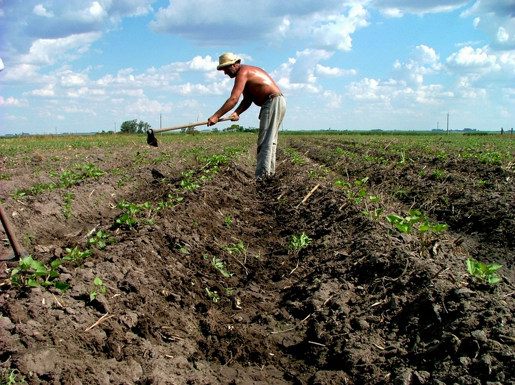 Bella Unión Farm, in Artigas Department, Uruguay.